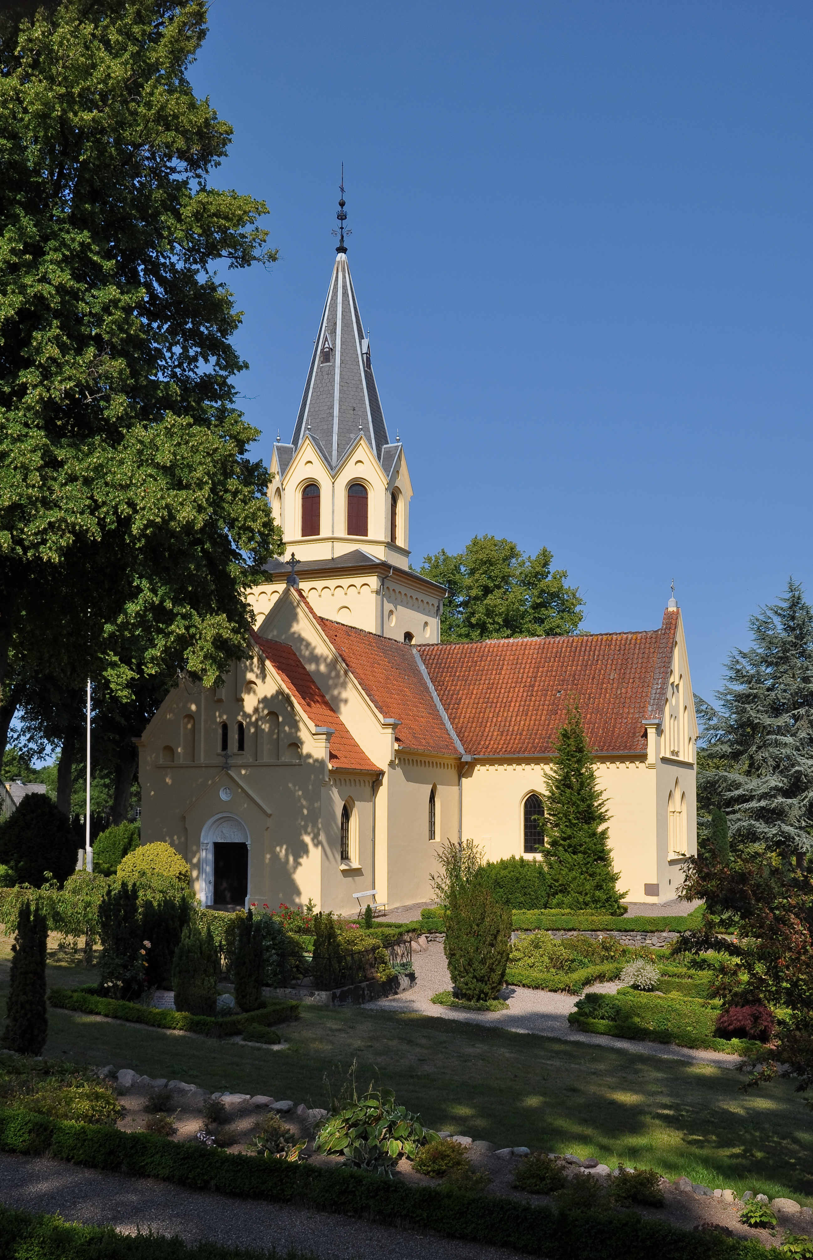 Tranekær Church in Langeland Municipality, Denmark.